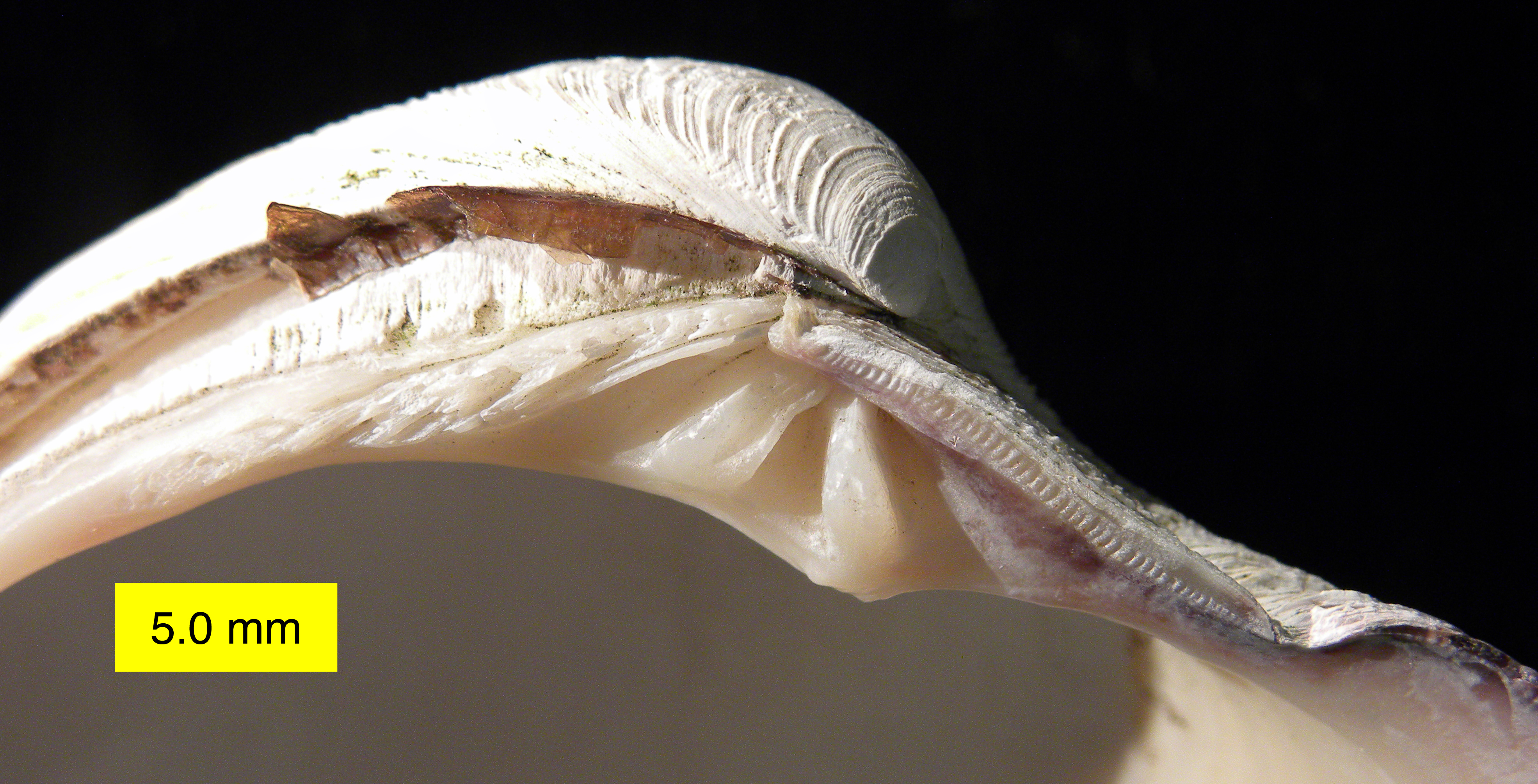 Dentition of the left valve of the clam Mercenaria mercenaria (East Coast of North America).